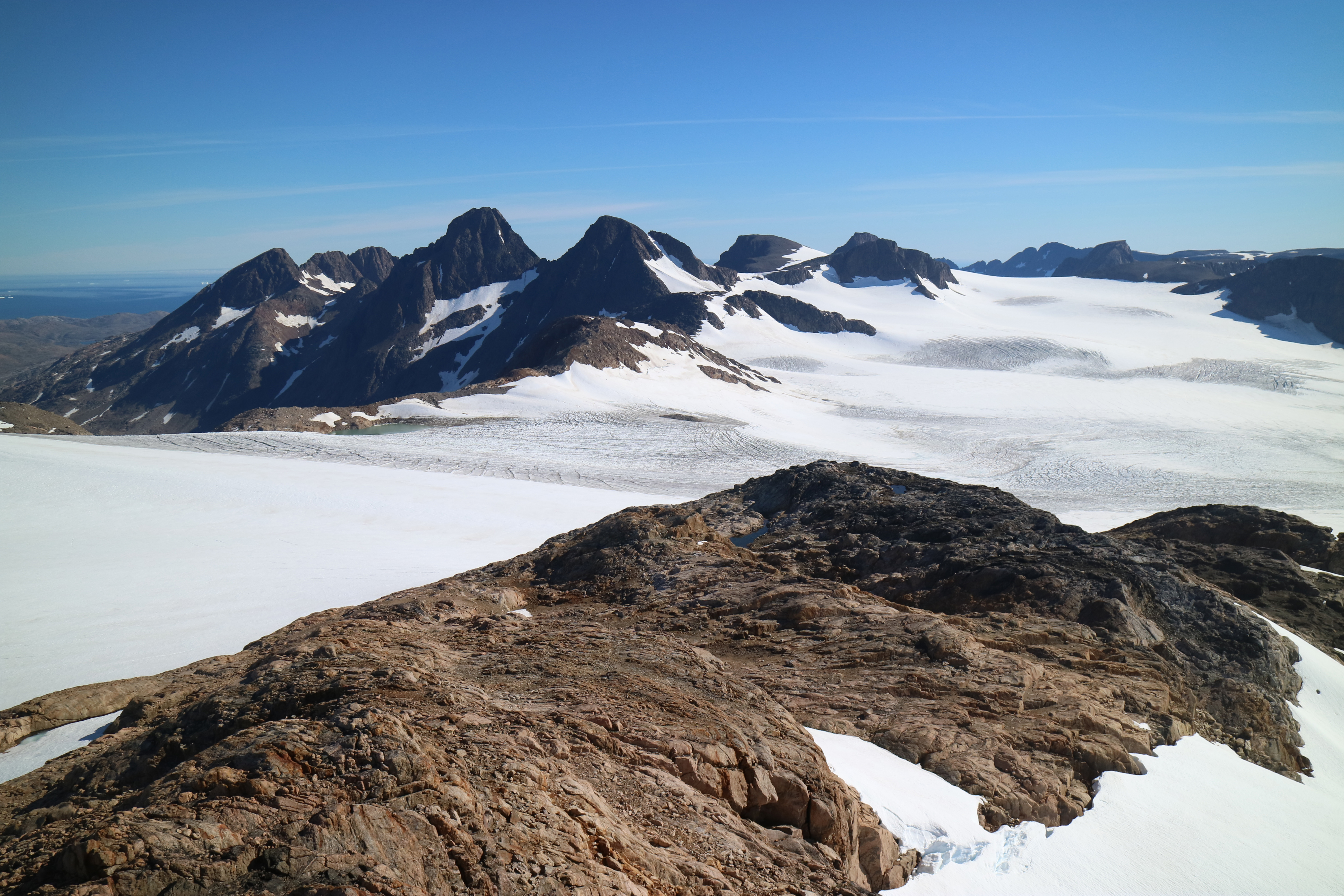 View from Mittivakkat nunatak over the glacier to Vegas Fjeld mountain (1,084 m)